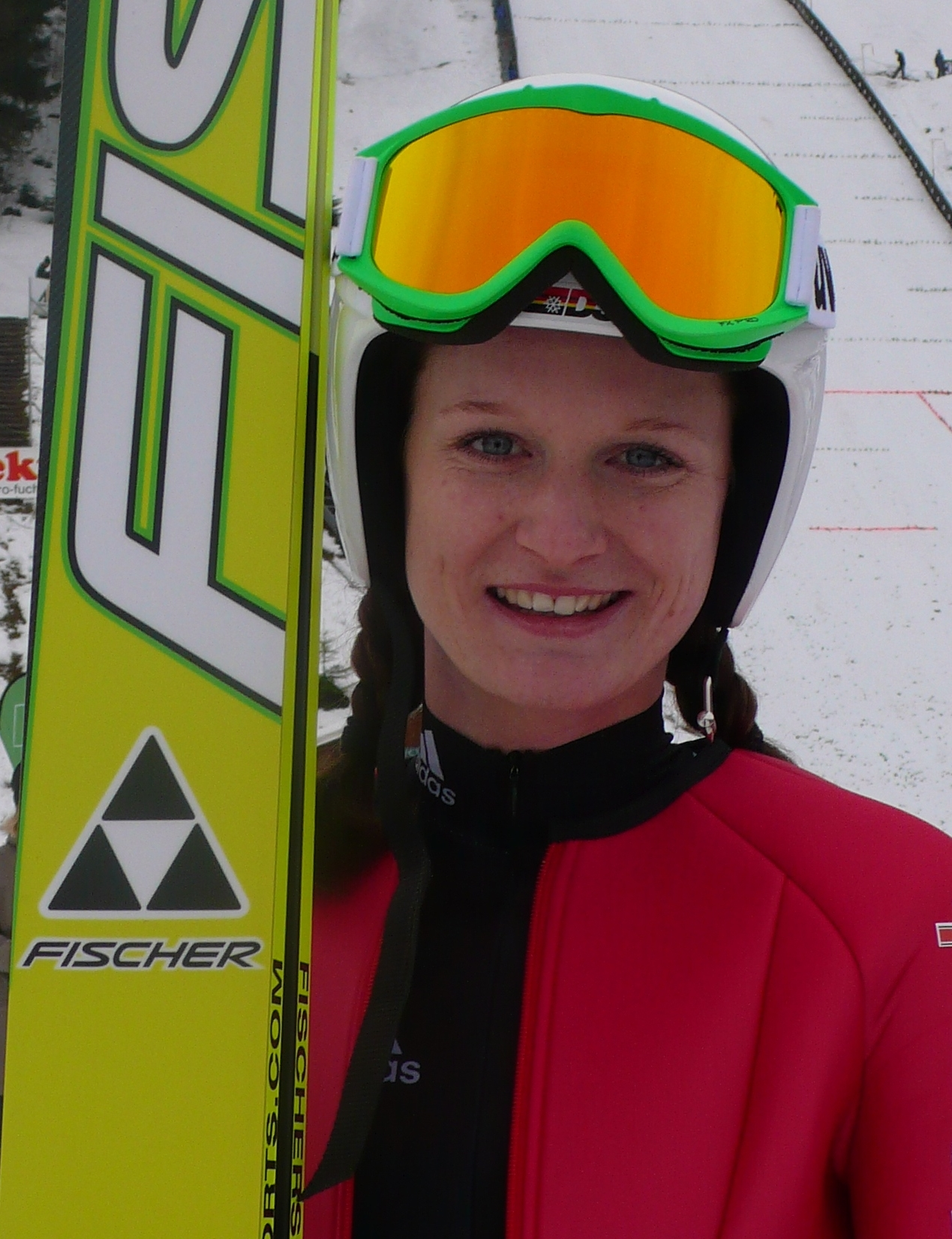 Anna Haefele